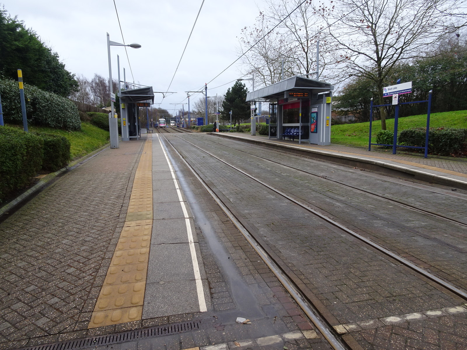 Black Lake tram stop, West Midlands. Opened in 1999 on the tram line from Birmingham to Wolverhampton. View south east towards the site of Swan Village railway station, Dudley Street Guns Village tram stop and Birmingham.